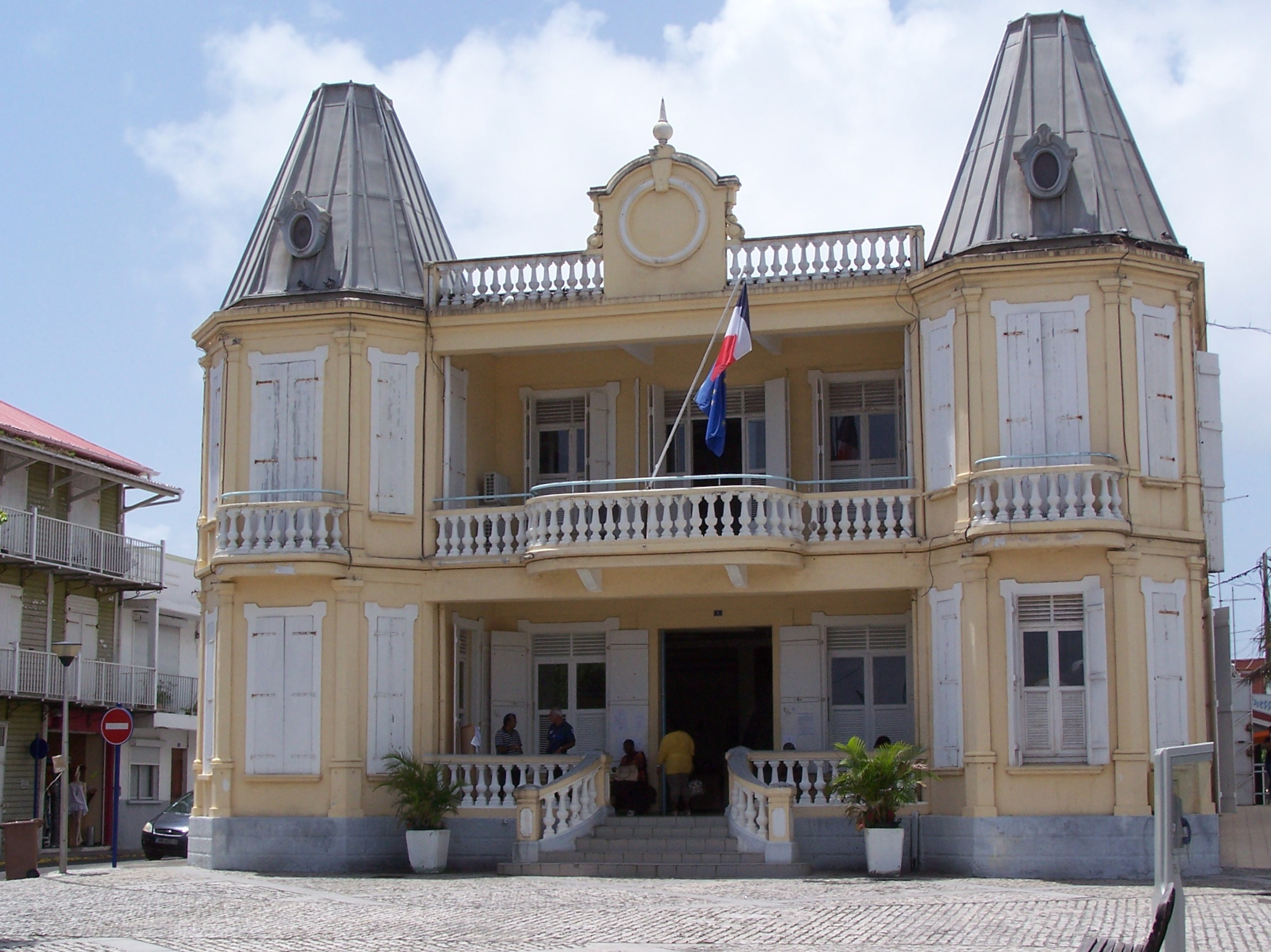 Mairie du Moule, Guadeloupe